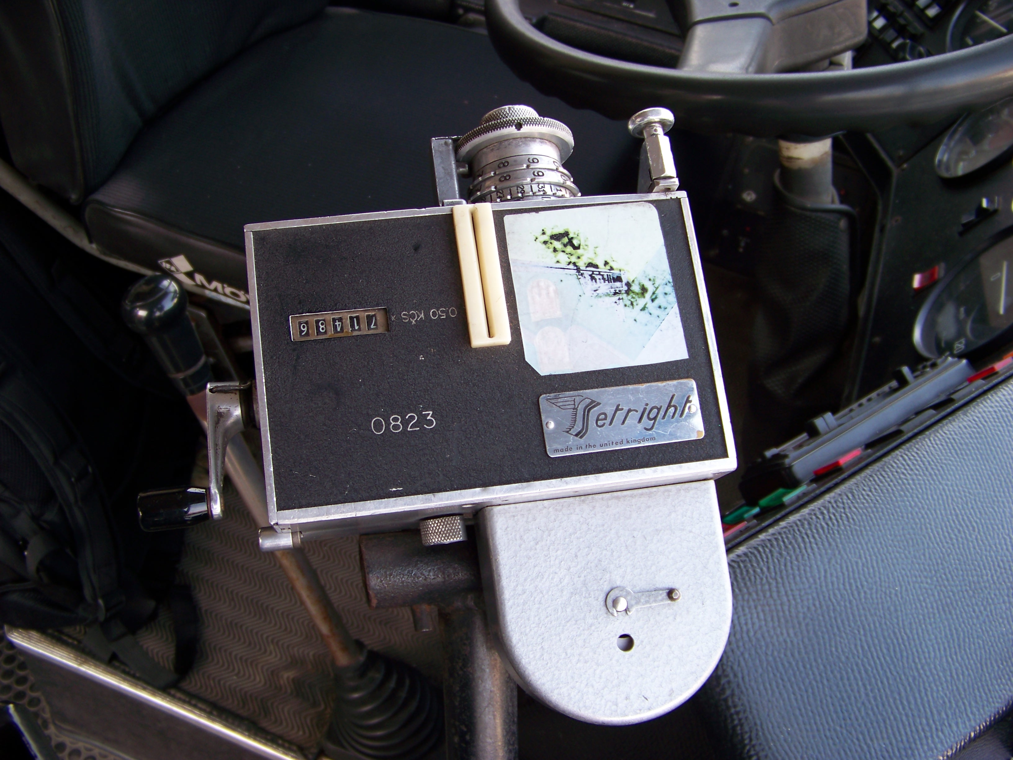 A driver-operated Setright ticket machine in Ikarus 280.10 bus. Kostelec nad Černými lesy, Prague-East District, Central Bohemian Region, the Czech Republic, depot of POLKOST company. - Google Maps - Google Earth